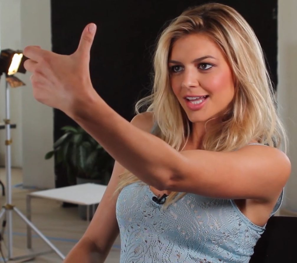 Kelly Rohrbach for a promotional by Style Caster